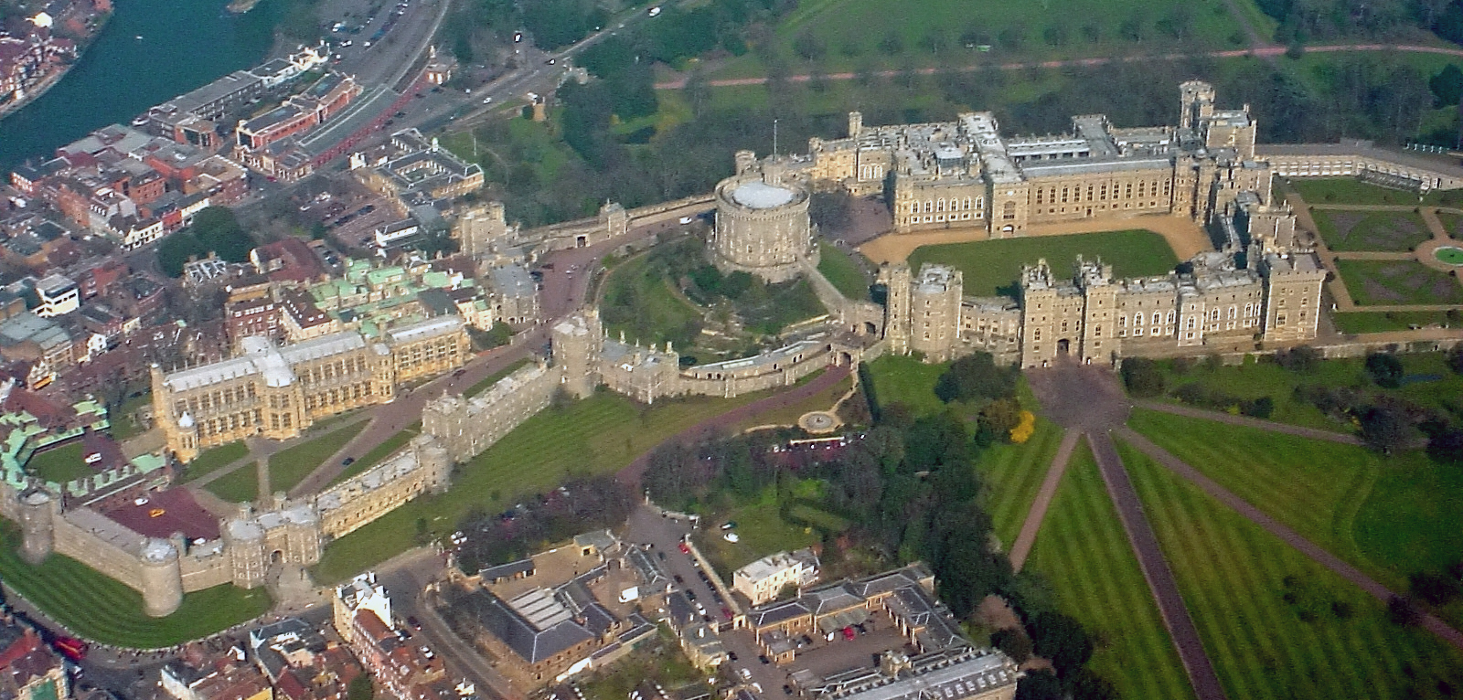 Windsor castle from the air